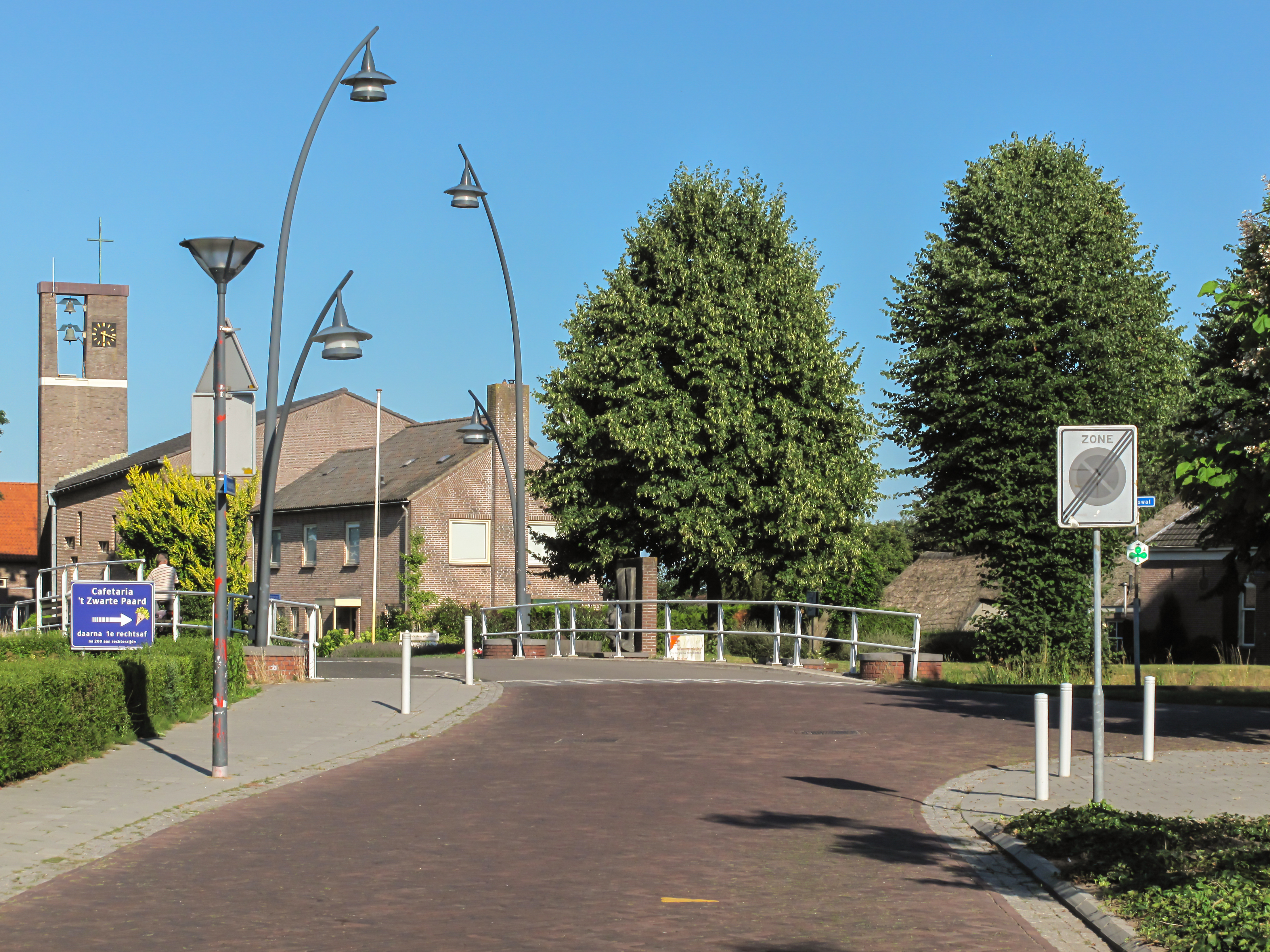 Wapenveld, view to a street: de Kerkstraat